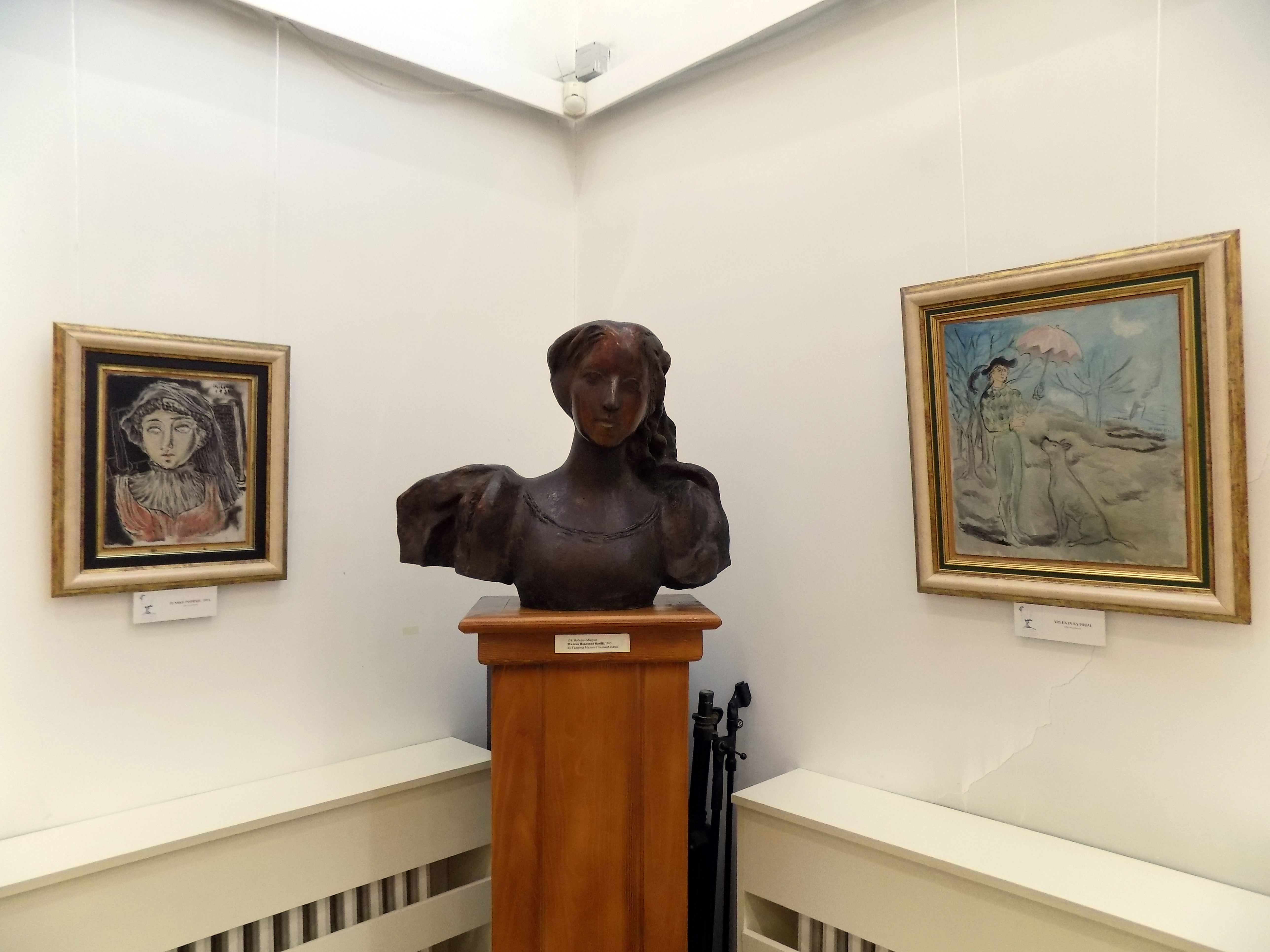 Milena Pavlović-Barili Gallery (Milena's home) - Bust of Milena Pavlović Barilli (Nebojša Mitrić, 1965)